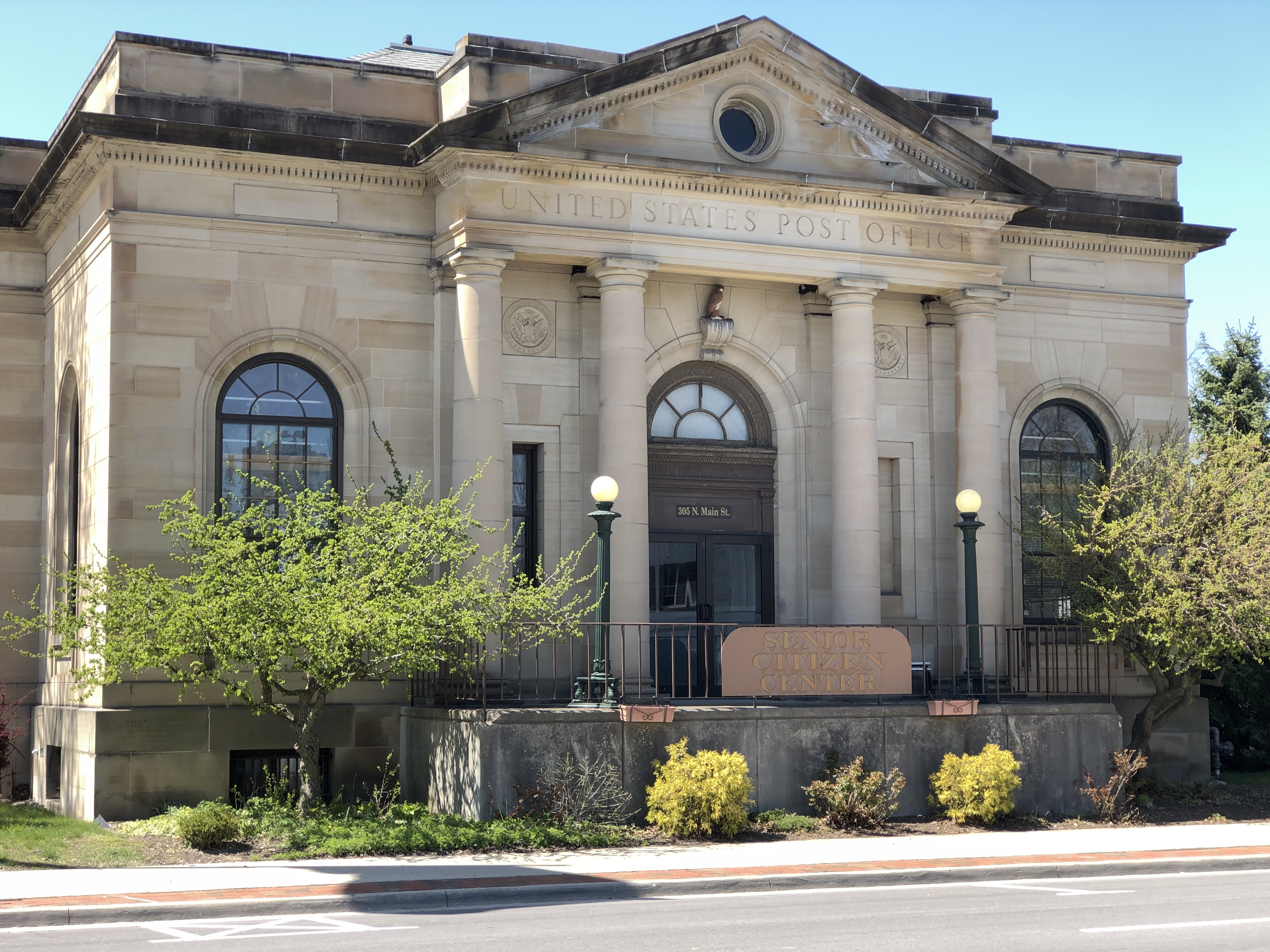 The old Bowling Green Ohio post office & Senior Center.